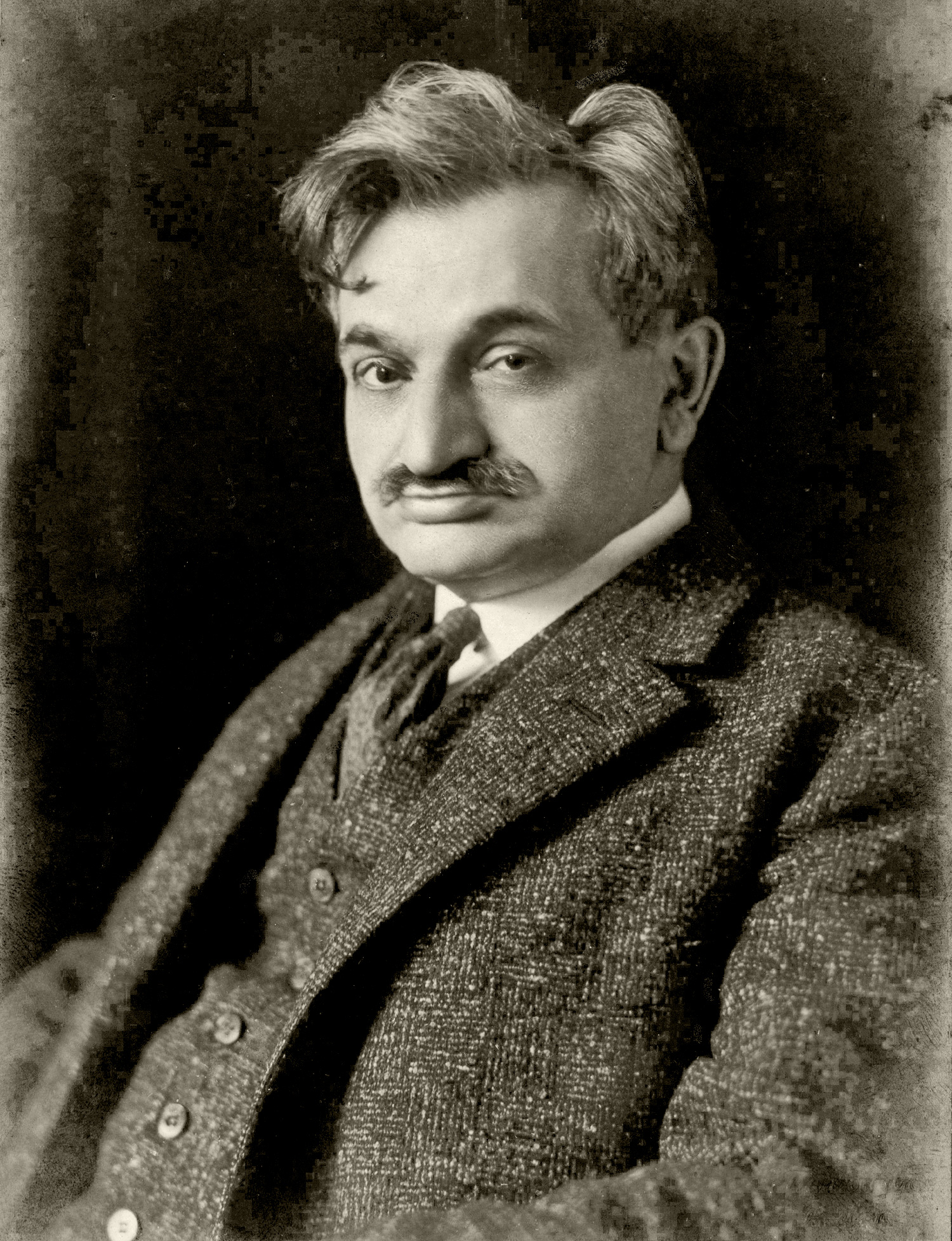 Picture of Emanuel Lasker